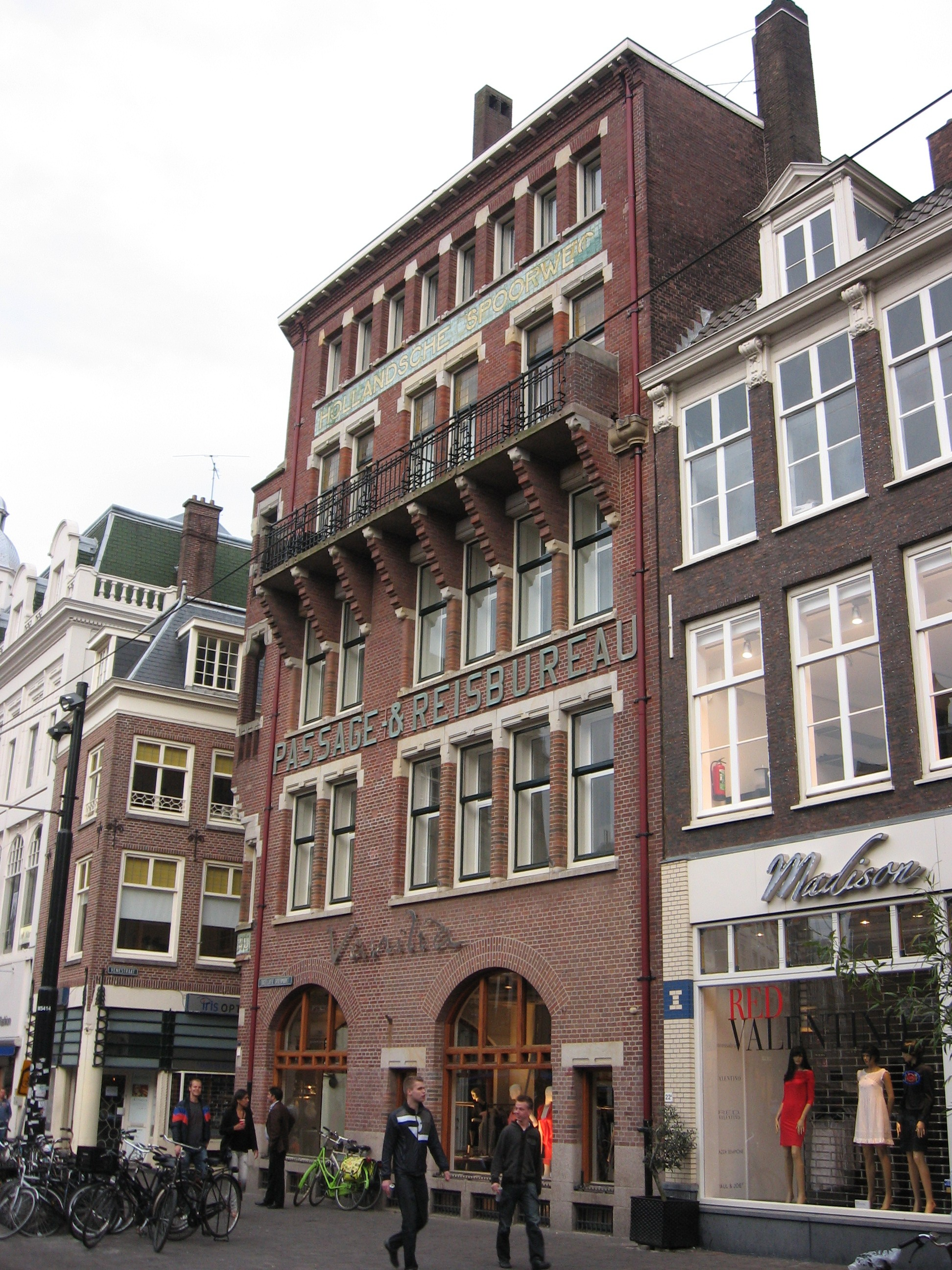 Dagelijkse Groenmarkt 22, hoek Venestraat. Hoog gebouw in de stijl van Berlage, dat oorspronkelijk het kantoor was van de Hollandsche IJzeren Spoorwegmaatschappij, een van de voorlopers van de Nederlandse Spoorwegen (bouwjaar: 1910, architecten: L.C. Westerhoff en J.G. Wattjes)